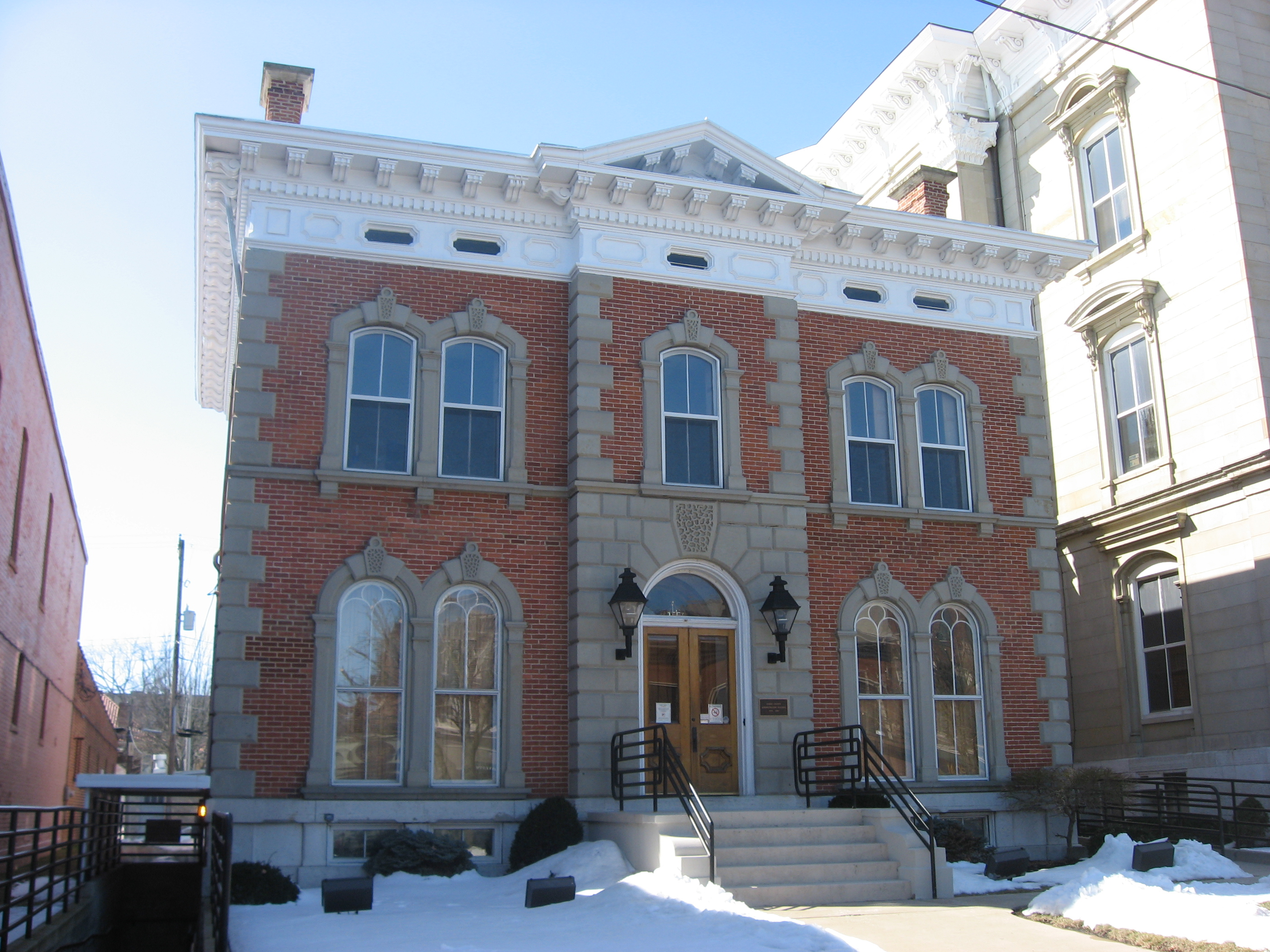 Front of the Darke County Sheriff's House, located next to the Darke County Courthouse at the intersection of Fourth Street and Broadway in downtown Greenville, Ohio, United States. Built in 1870, the house has been converted into a courthouse annex. The sheriff's house and courthouse, along with the adjacent jail (not shown), are listed together on the National Register of Historic Places, and they are contributing properties to a Register-listed historic district, the Greenville South Broadway Commercial District.